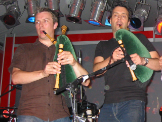 Antwn Owen Hicks and Gafin Morgan playing the Welsh bagpipes at the InterCeltic Festival at Lorient, Brittany in August 2008.